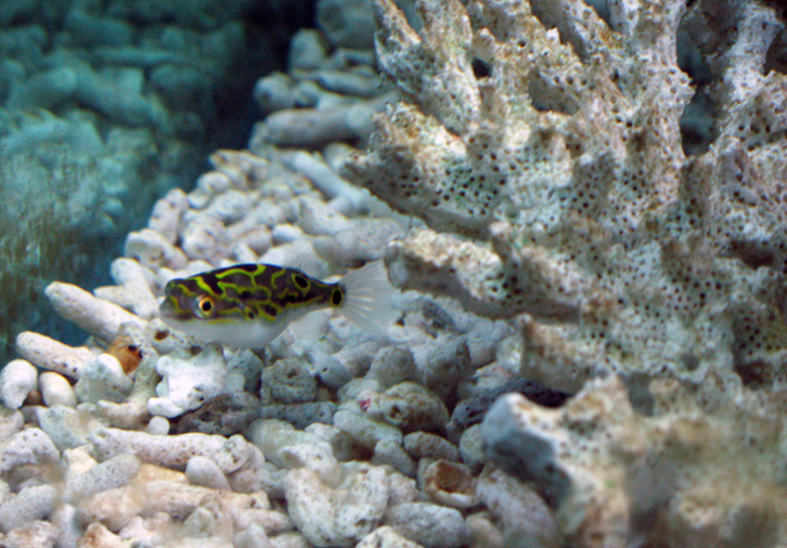 Tetraodon biocellatus (Figure Eight pufferfish)